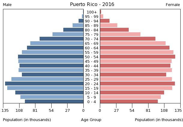 The population pyramid of Puerto Rico illustrates the age and sex structure of population and may provide insights about political and social stability, as well as economic development. The population is distributed along the horizontal axis, with males shown on the left and females on the right. The male and female populations are broken down into 5-year age groups represented as horizontal bars along the vertical axis, with the youngest age groups at the bottom and the oldest at the top. The shape of the population pyramid gradually evolves over time based on fertility, mortality, and international migration trends.